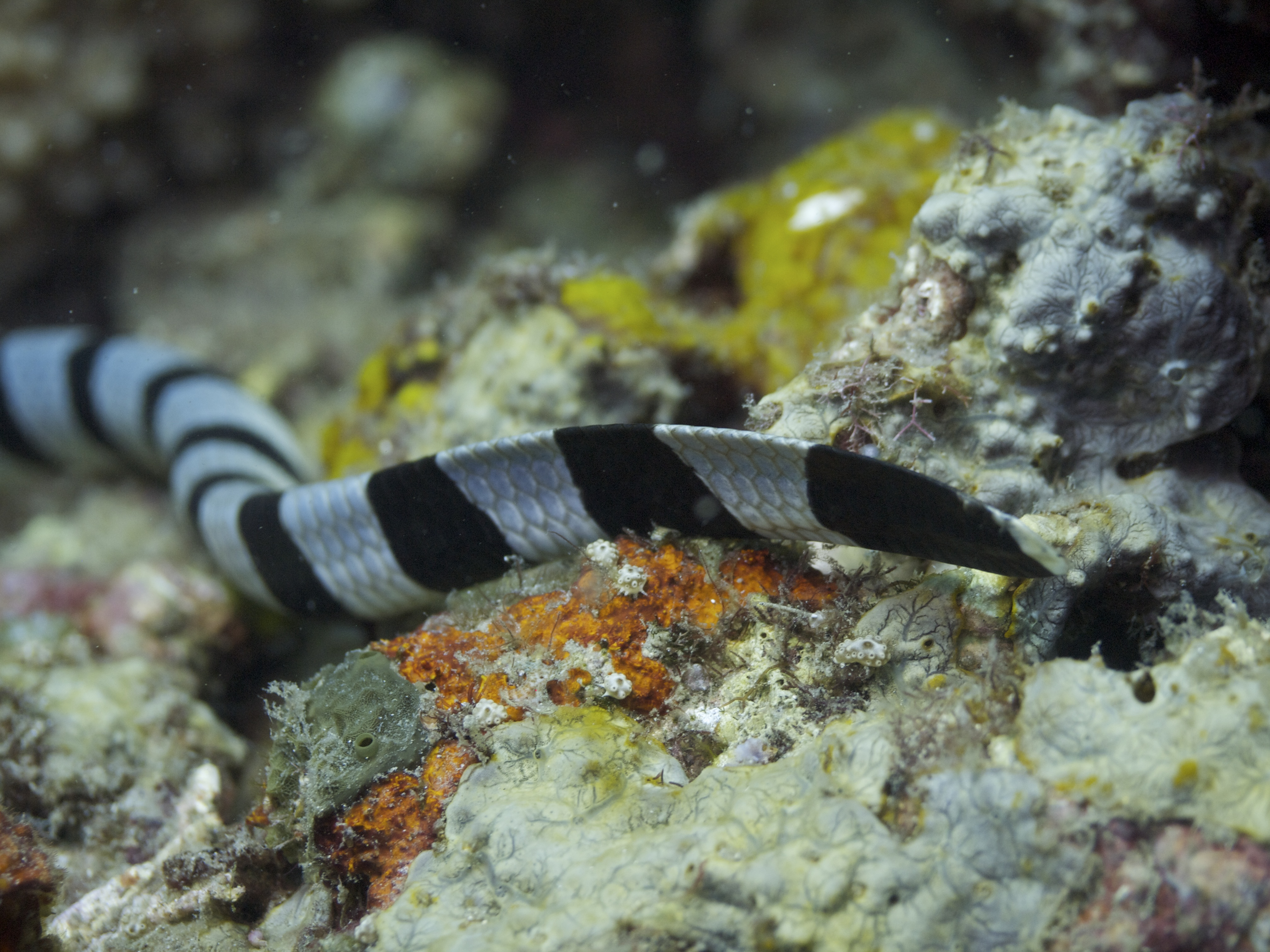 The paddle-like tail of a yellow-lipped sea krait (Laticauda colubrina). Image taken in Zamboanguita, Central Visayas, Philippines